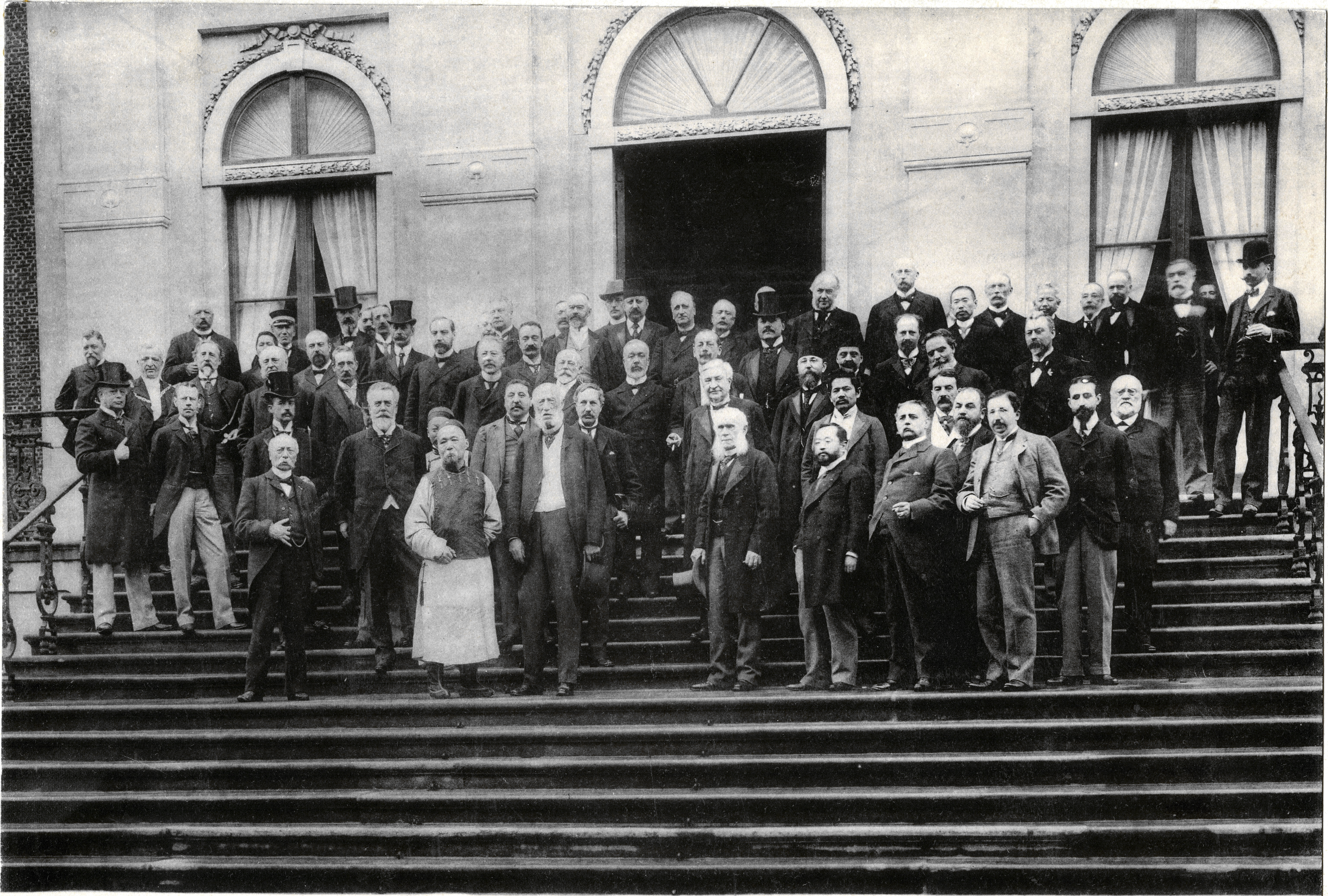 The delegates of the First Peace Conference (1899) pose on the steps of "Huis ten Bosch" Palace in The Hague.